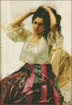 Una Mestiza